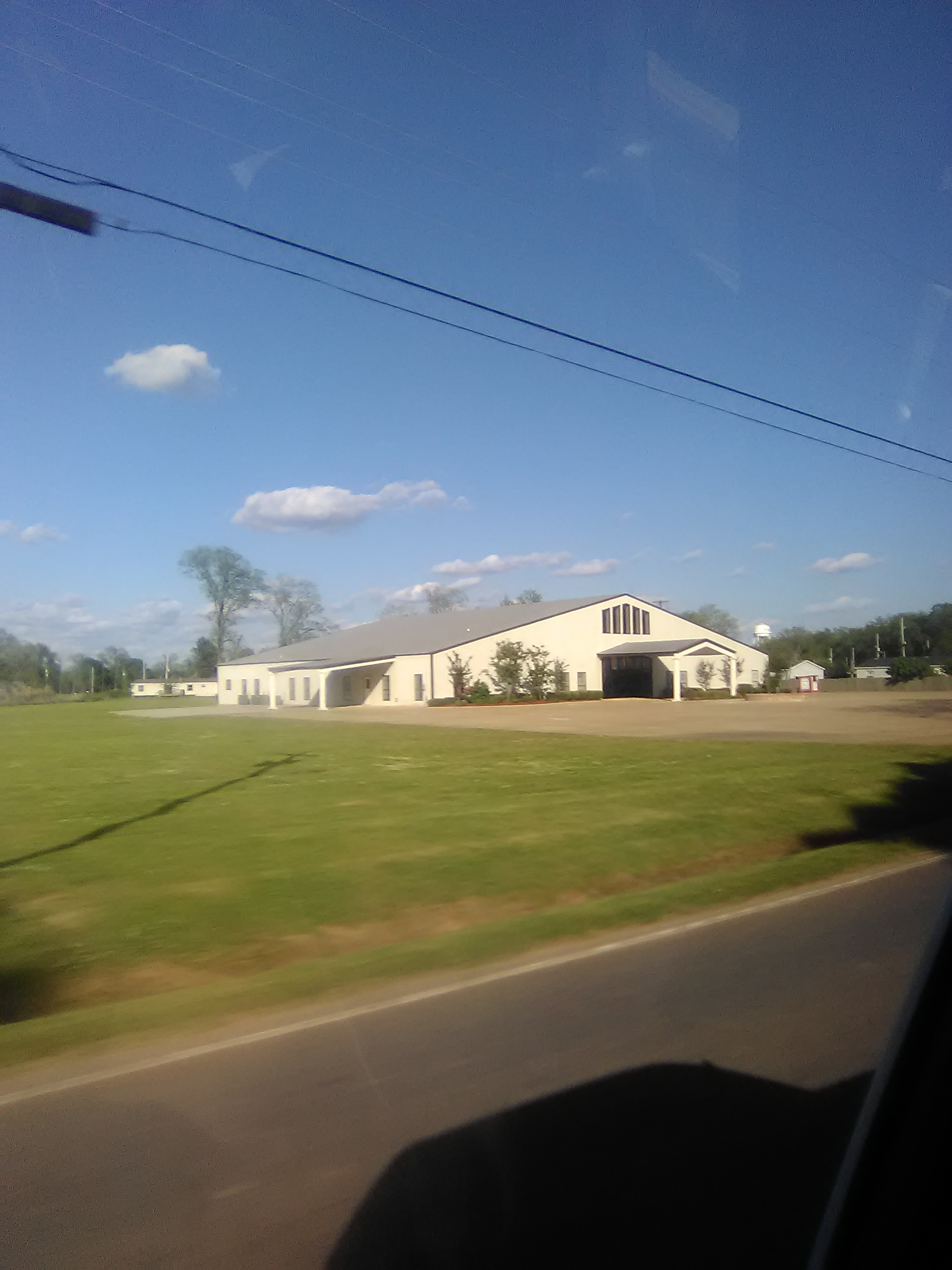 Christian Worship Center of Natchitoches